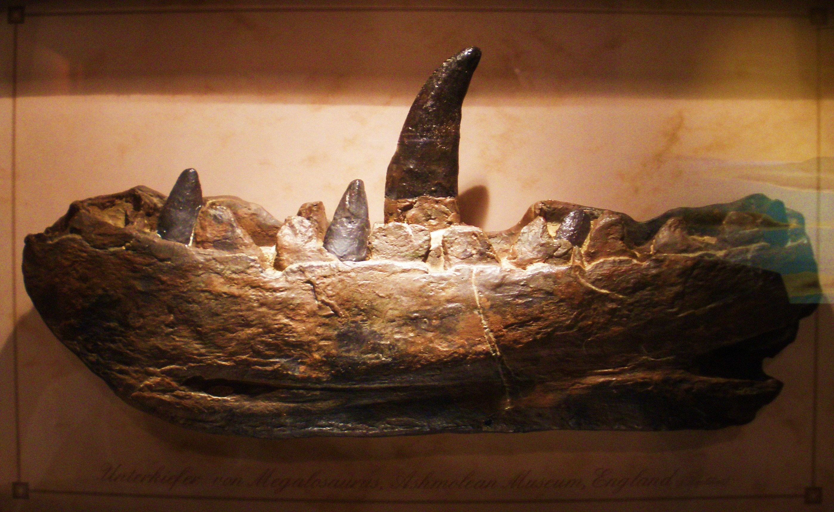 (?Copy of) the lectotype of Megalosaurus bucklandii Mantell 1827, a dentary from the middle Bathonian Stonesfield Slate of Oxfordshire, England, in medial view. The catalogue no. of the original fossil in the Oxford University Museum of Natural History is OUMNH J.13505.